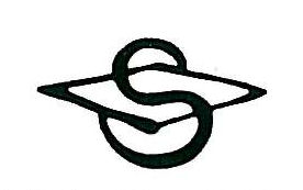 autograph of the painter Carl Spitzweg